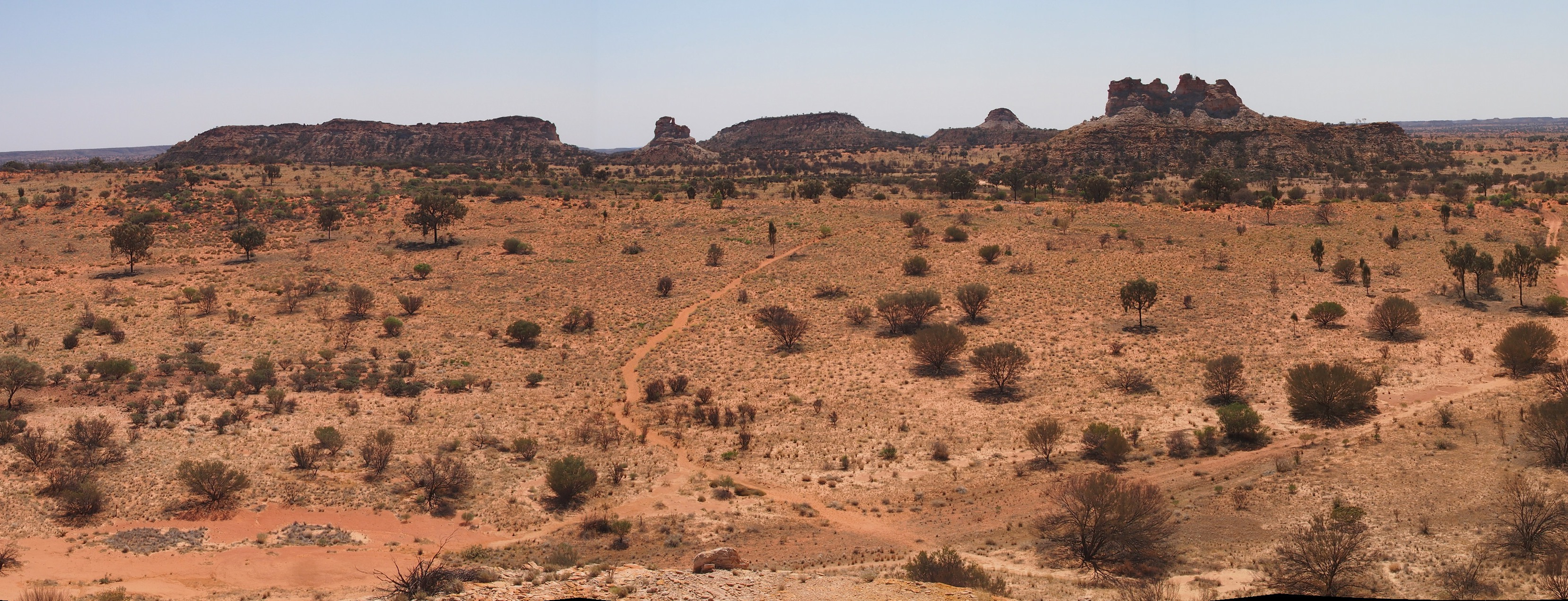 Castle Rock, Chamber's Pillar Reserve, as viewed from Chamber's Pillar looking east